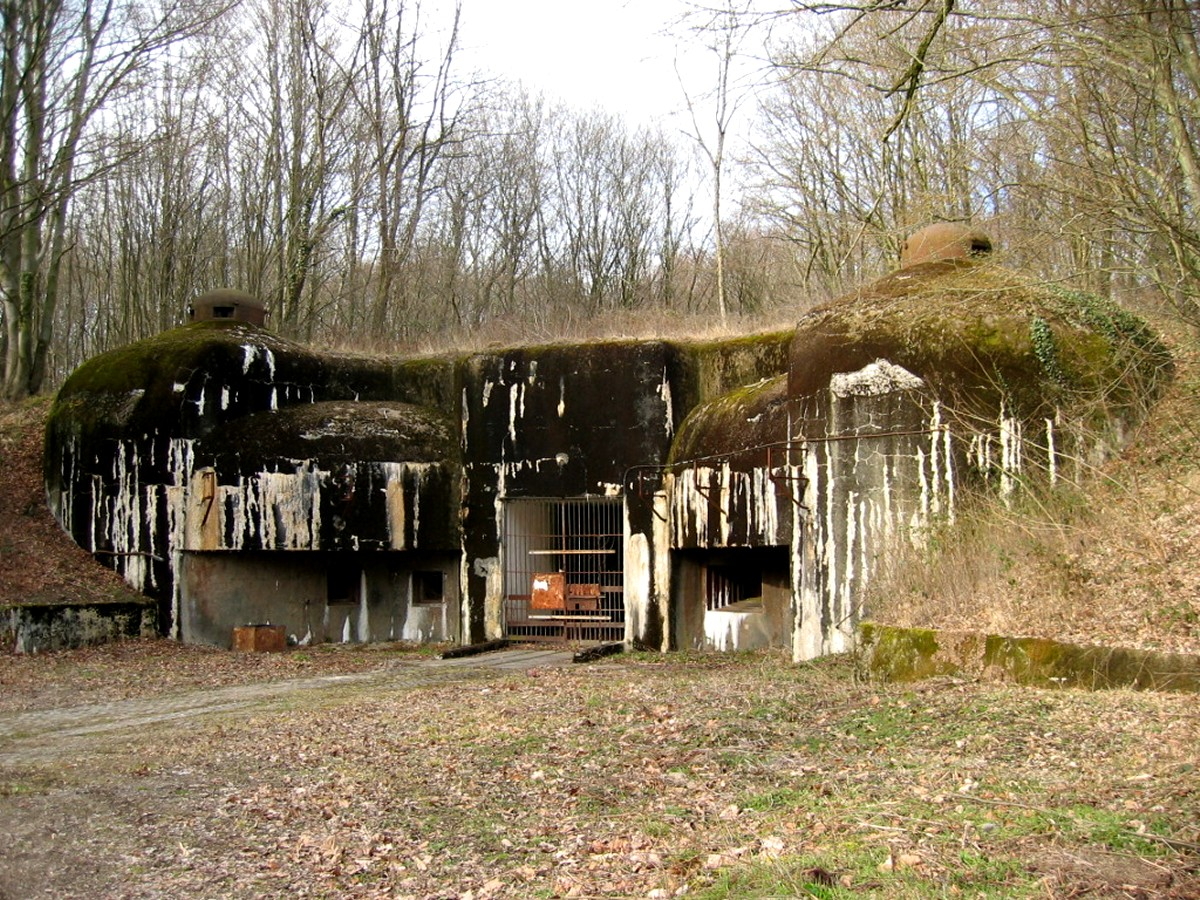 Maginot Line - Work of Kobenbush - Amunitions entrance